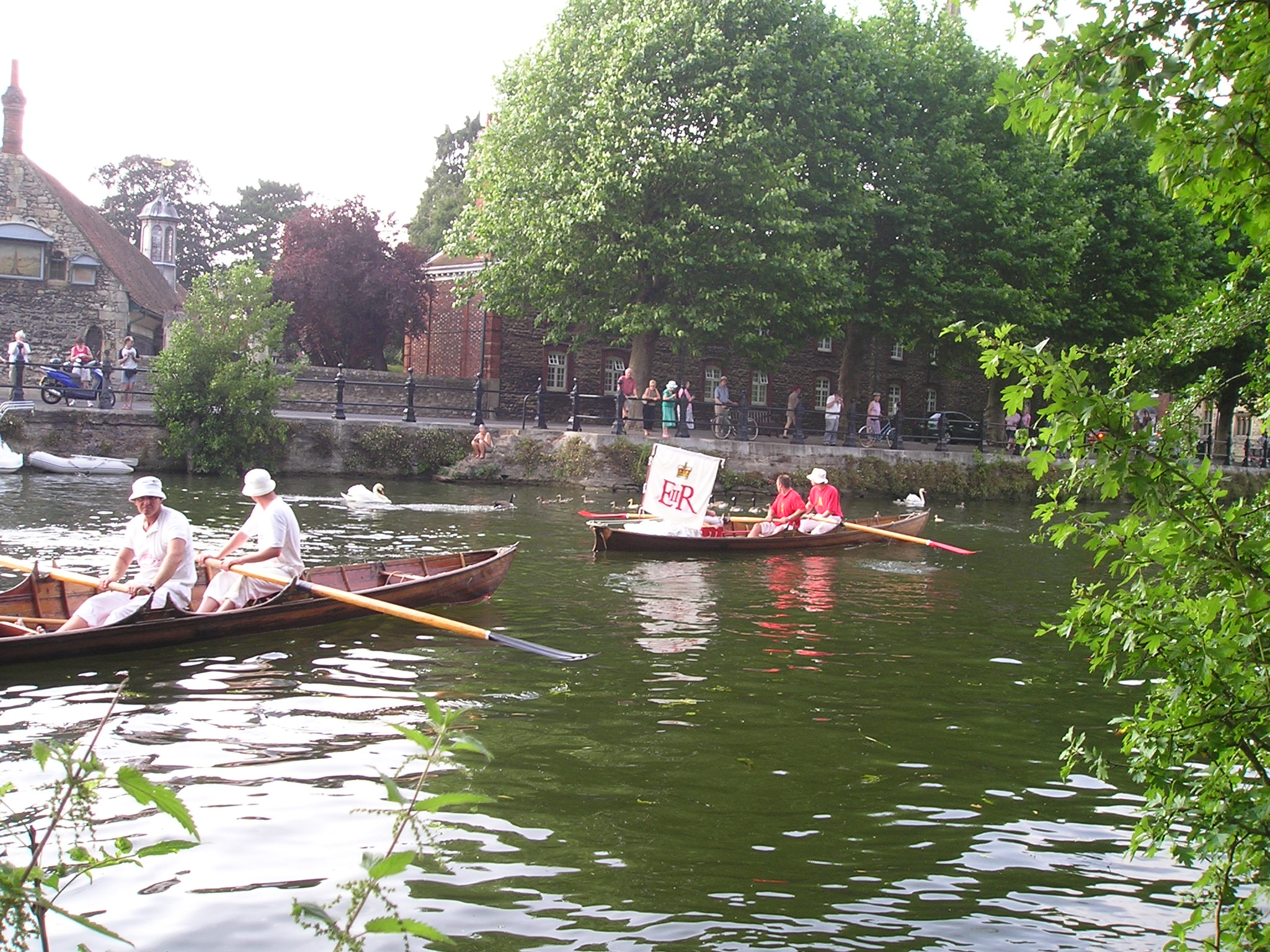 The Queen's Swan Uppers (right) and swan uppers from the Vintners' Company conducting Swan Upping (an annual census of the swan population) on the Thames in Abingdon.